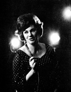 Trade ad for Maxine Brown's single "Under The Influence Of Love". To better adapt it to his respective Wikipedia article, the ad was cropped and cleaned in a graphics editing program. The original can be viewed at the source below.